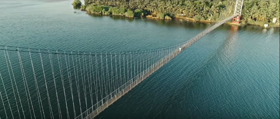 A hanging bridge near Tirur, Kerala, India